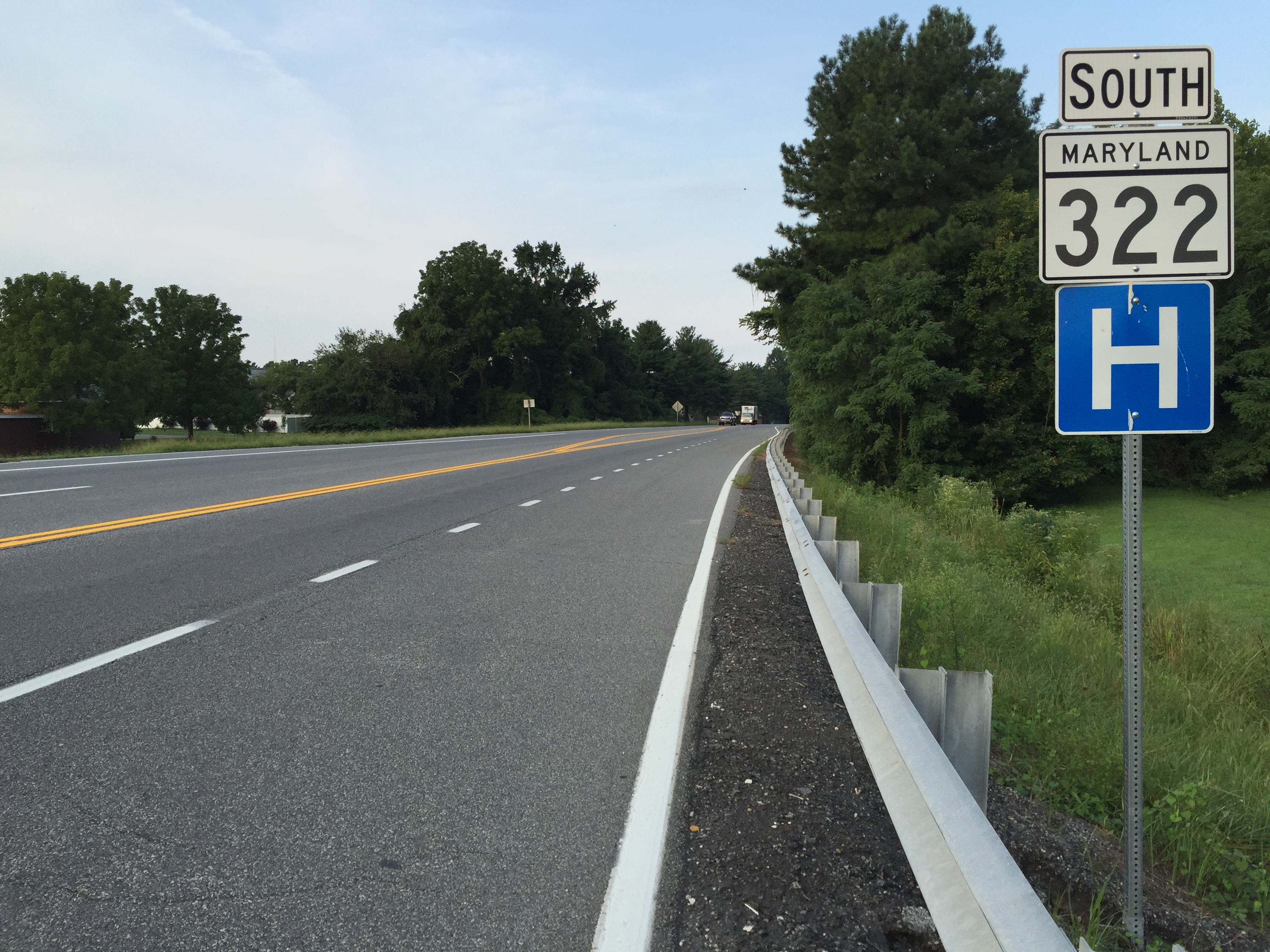 View south along Maryland State Route 322 (Easton Parkway) at Washington Street in Easton, Talbot County, Maryland